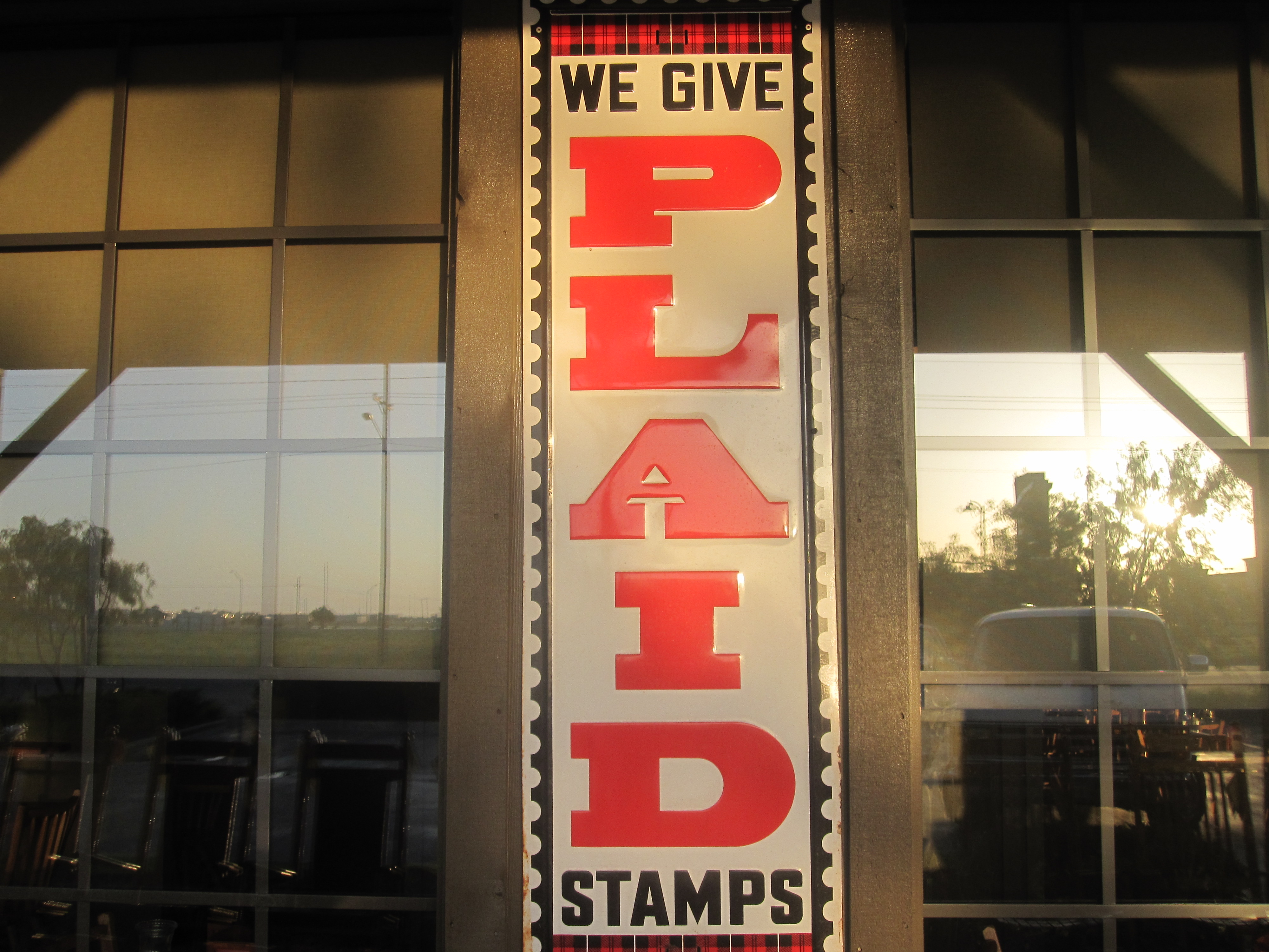 I took photo at Cracker Barrel in Lubbock, TX., with Canon camera.